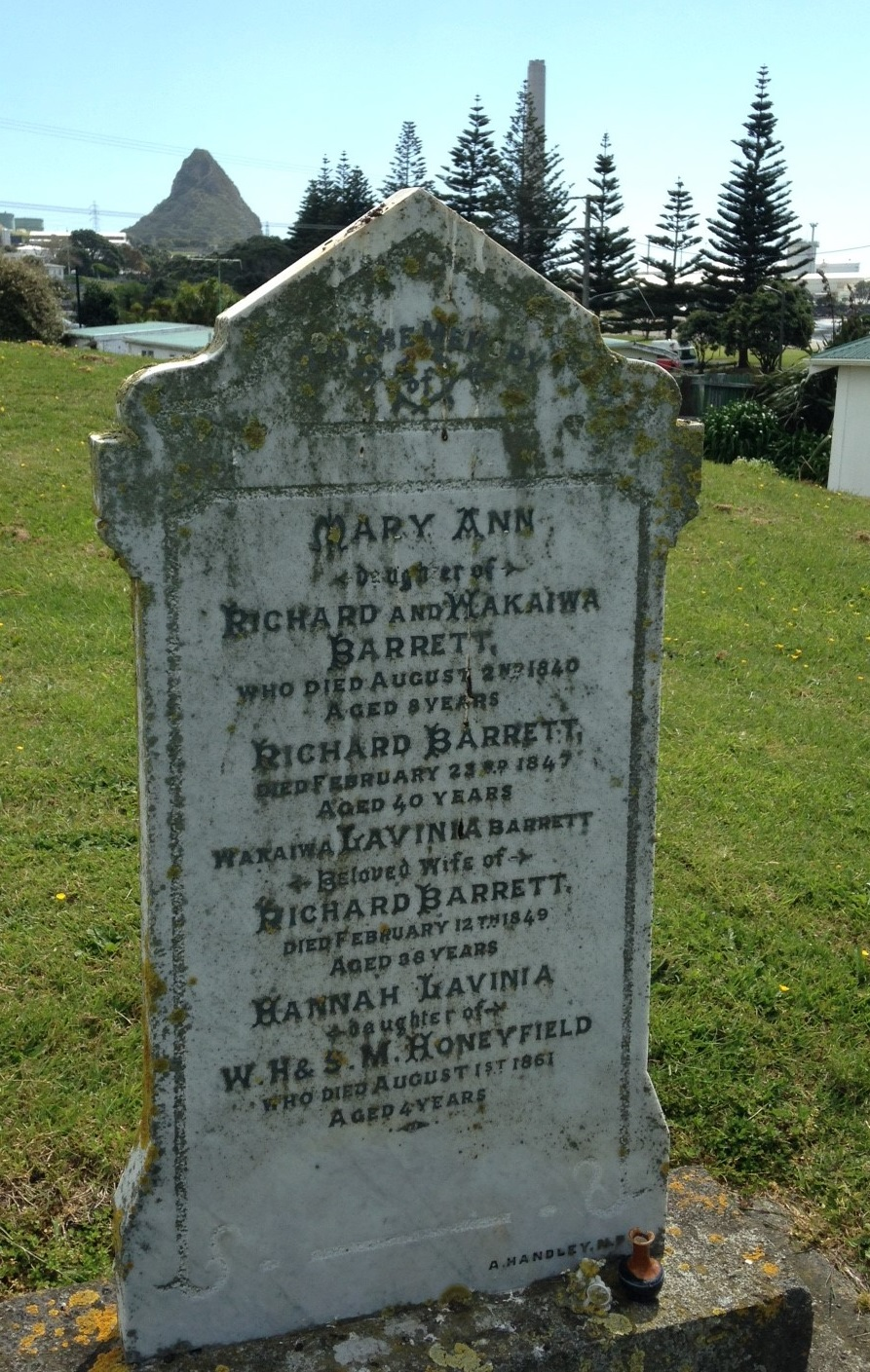 Headstone of 19th century New Zealand trader Richard "Dicky" Barrett at Bayly Rd, Ngamotu, New Plymouth. See Dicky Barrett (trader)